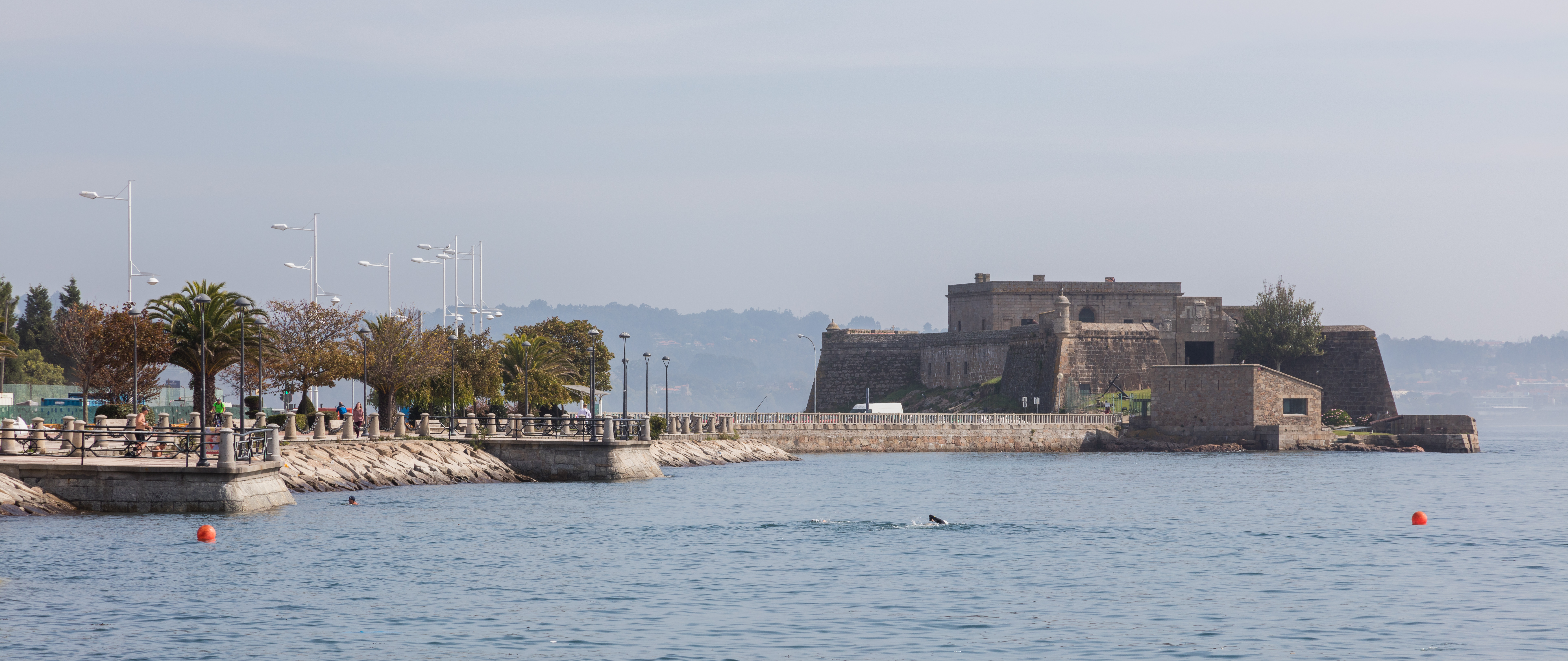 San Antón Castle, La Coruña, Spain